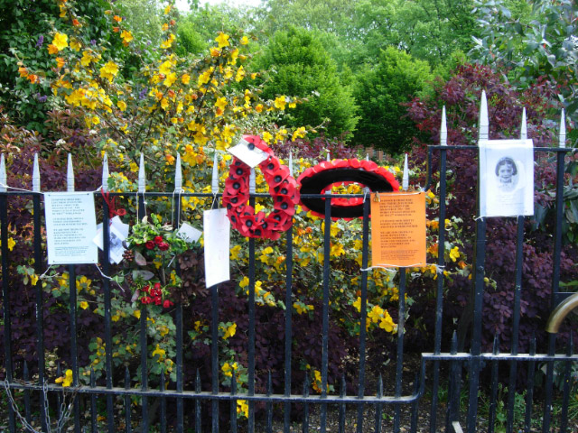 Memorial at Bethnal Green Underground Station. Wreathes of poppies and a few words of explanation have been fixed to these railings immediately adjacent to the steps leading into Bethnal Green underground station by campaigners for a fitting memorial to those who lost their lives in the disaster in 1943 when a crowd became crushed when entering the station to shelter from an air raid. See also 1296116